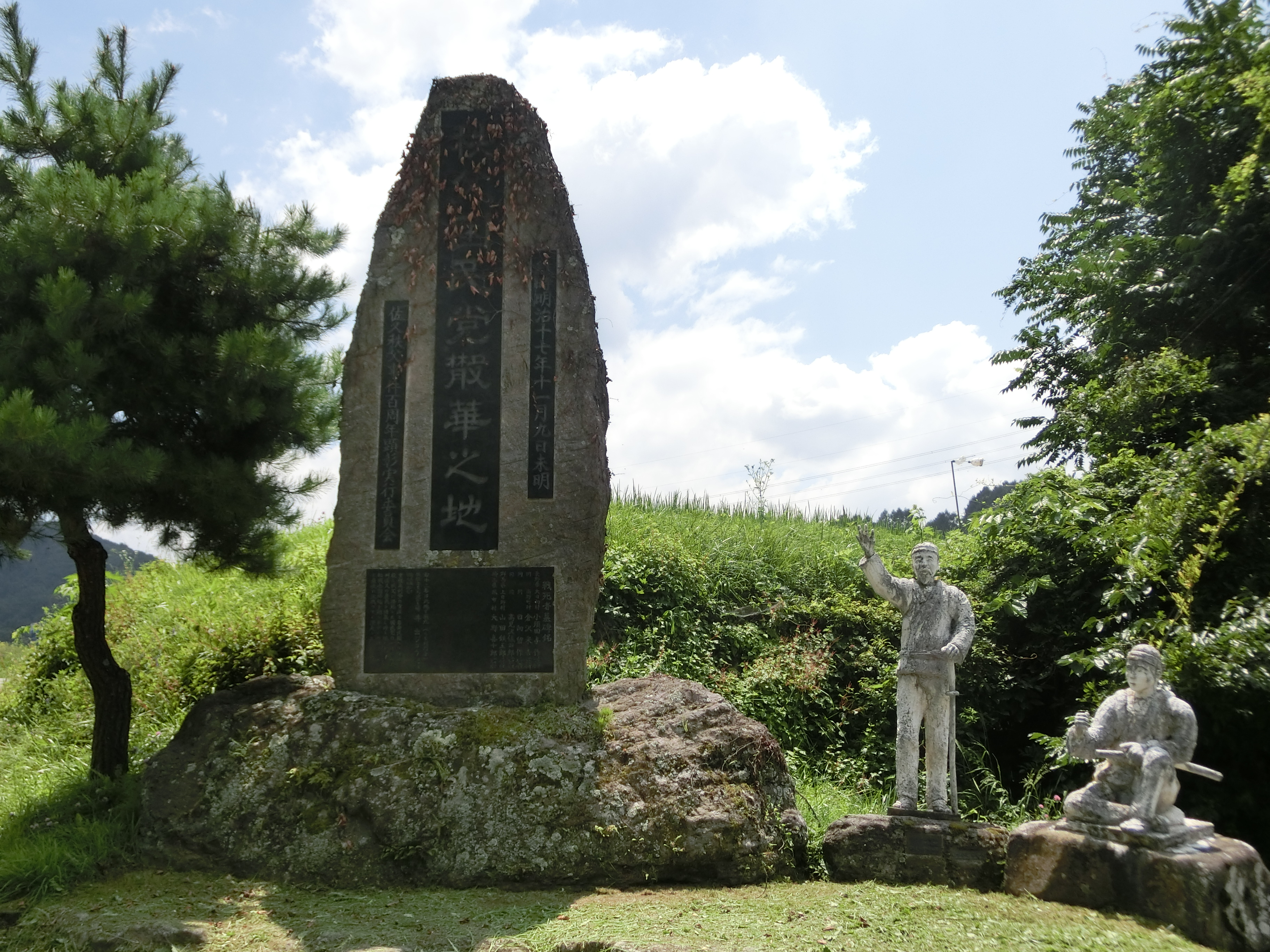 Cenotaph of Chichibu Incident Members